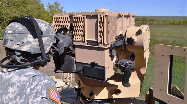 FORT RILEY, Kan.—Pfc. Shane Paulo, a fire support specialist with Headquarters and Headquarters Company, 2nd Armored Brigade Combat Team, 1st Infantry Division, looks through a laser range finder mounted atop an M1200 Knight armored vehicle Sept. 18 at an observation post. Fire support Soldiers are the eyes and ears of the artillery and train to ensure they are prepared to direct accurate fire on the enemy.